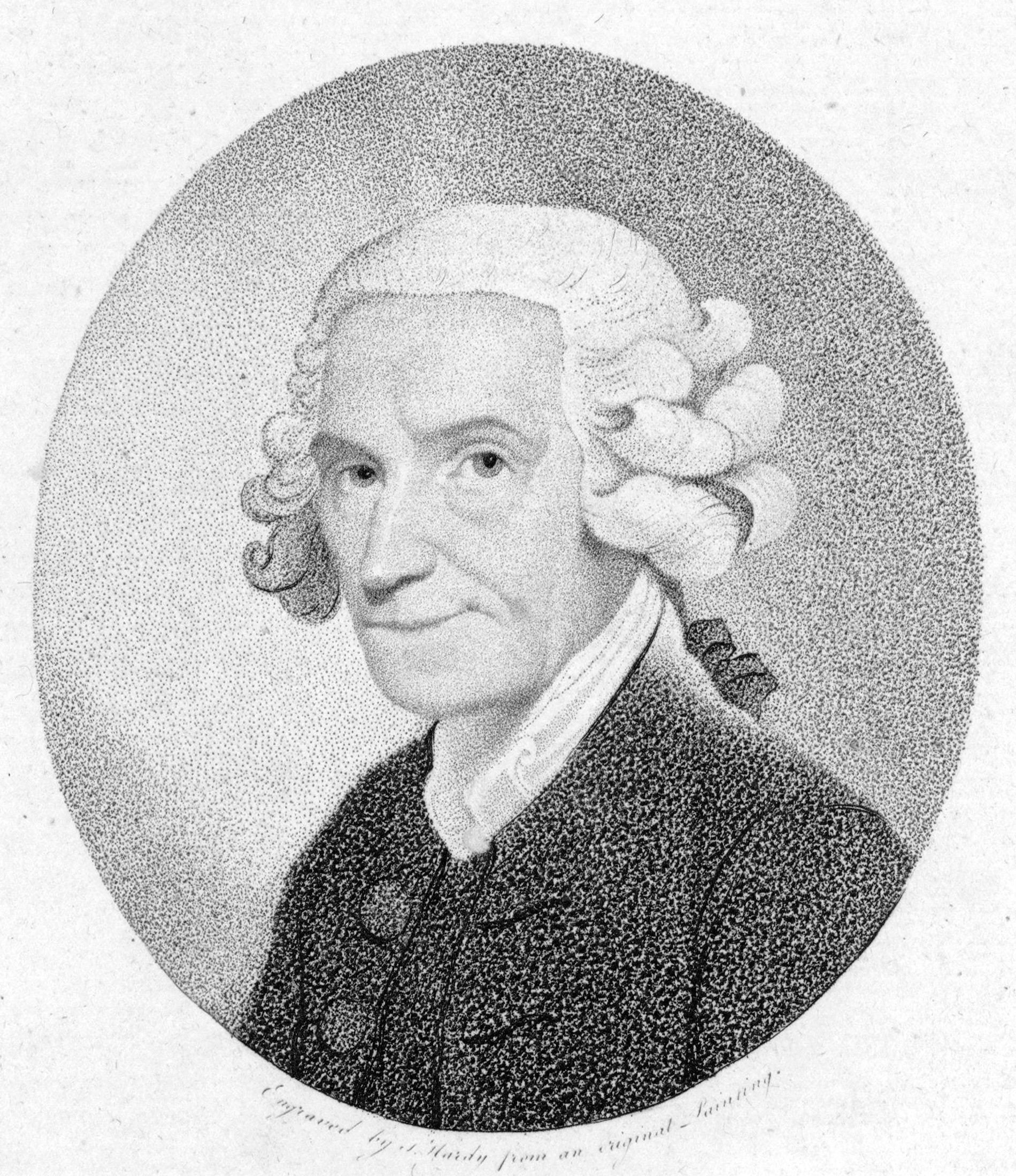 Depicted person: James Nares